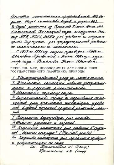 В паспорте указано, что сад представлен 302 многолетними травянистыми видами растений, общим числом в количестве 402 видов, 30 - входят в Красную Книгу. Коллекцией сада на тот момент пользовались Ботсад МГУ, ТСХА, МЛТИ для учебных и научных целей.